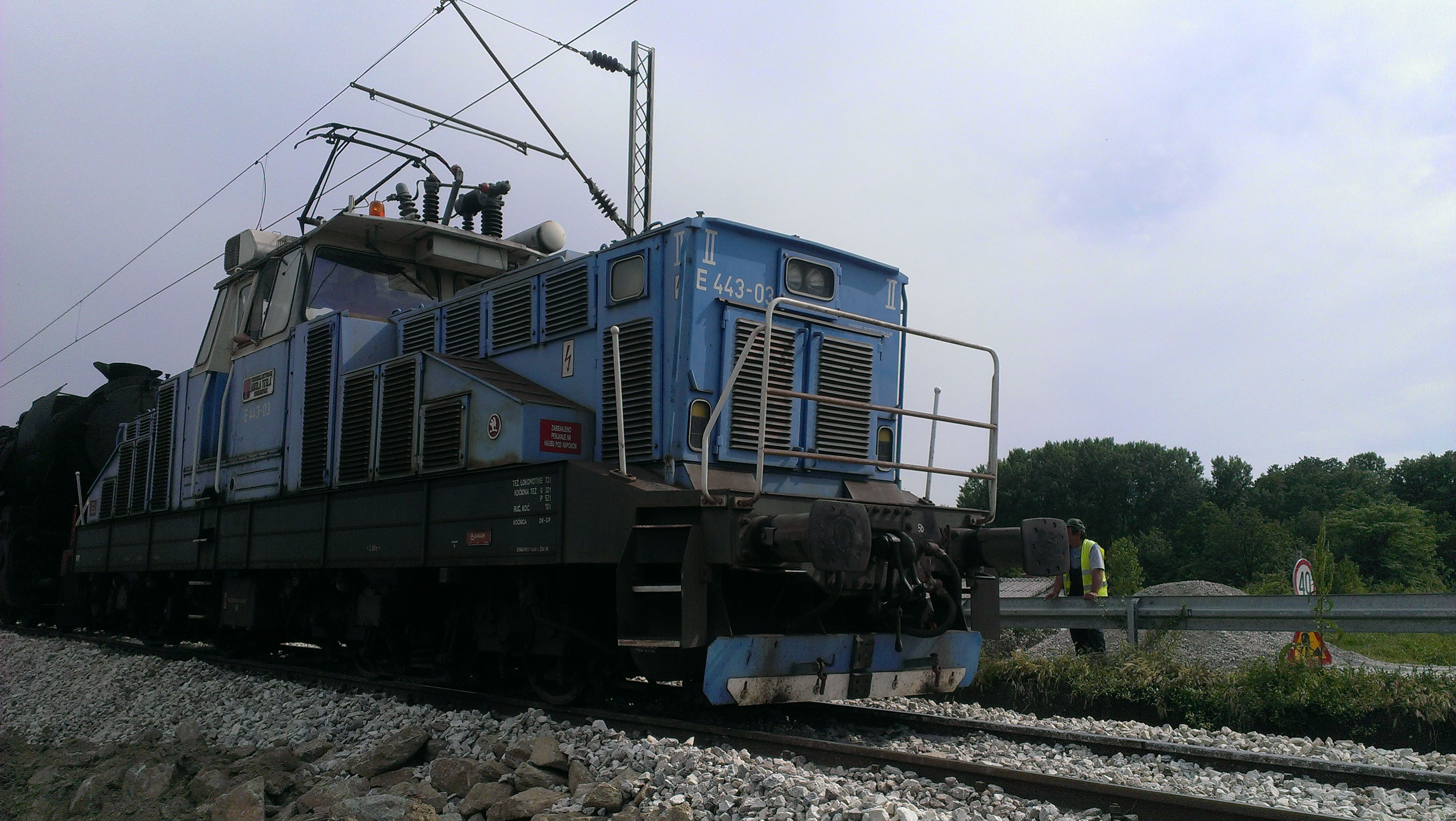 Class 443 electric locomotive of TPP Nikola Tesla railtransport passing by one rail track damaged by 2014 floods.